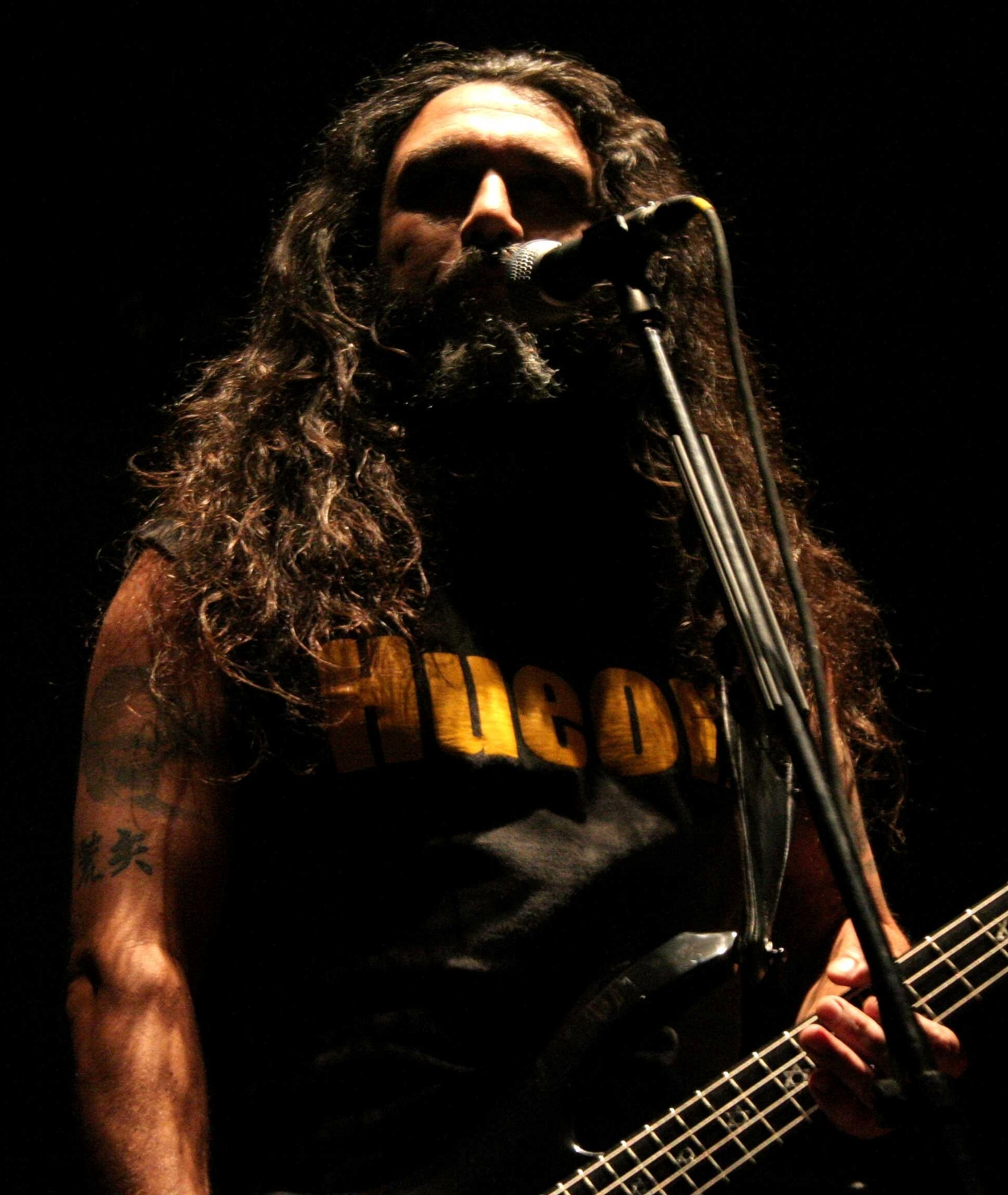 Tom Araya Performing at the Unholy Alliance Tour